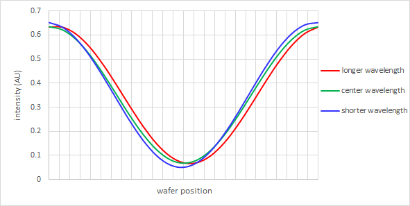 Due to the multilayer reflectance vs angle being different for different wavelengths, the line pattern shifts differently for different wavelengths when defocused.refChromatic Blur in EUV Lithography refF. Scholze et al., Proc. SPIE 6151, 615137 (2006). refIllumination Rotation in Ring-Field Optics in Reflective Lithography Systems